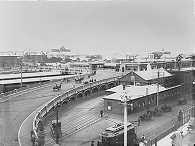 William Street Horseshoe Bridge, Perth, Western Australia - Railway Institute building at the right